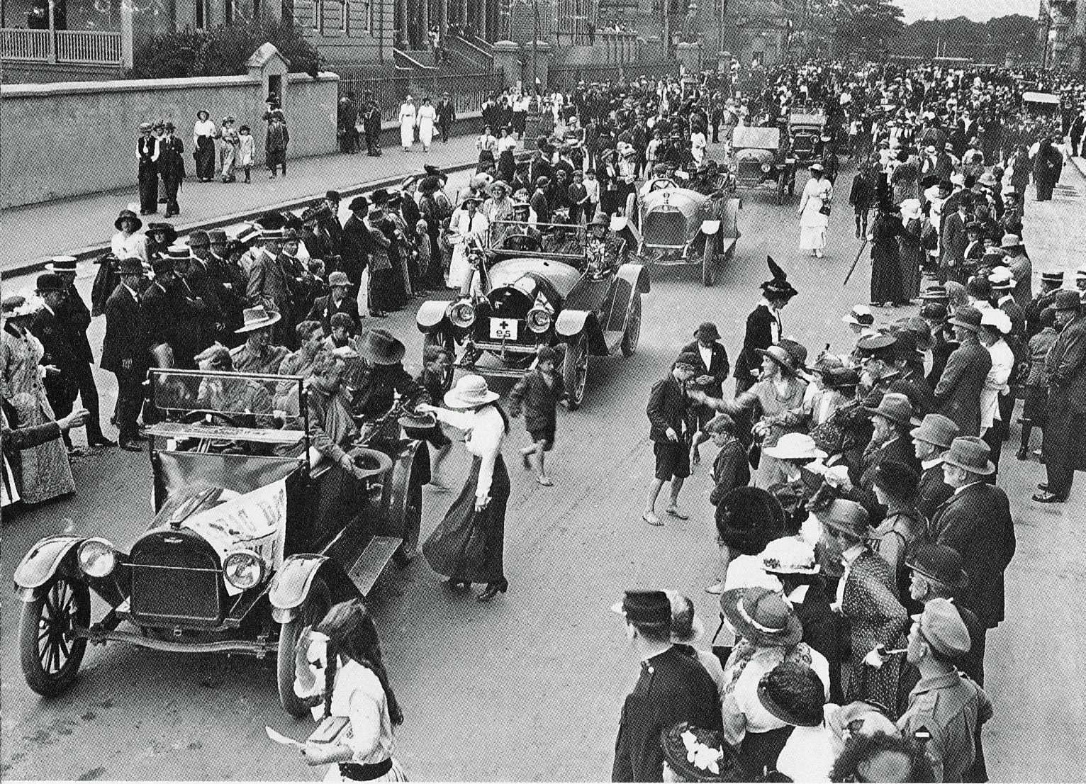 First Anzac Day parade in Sydney, along Macquarie Street, 25 April 1916. Phot attributed to George Bell.